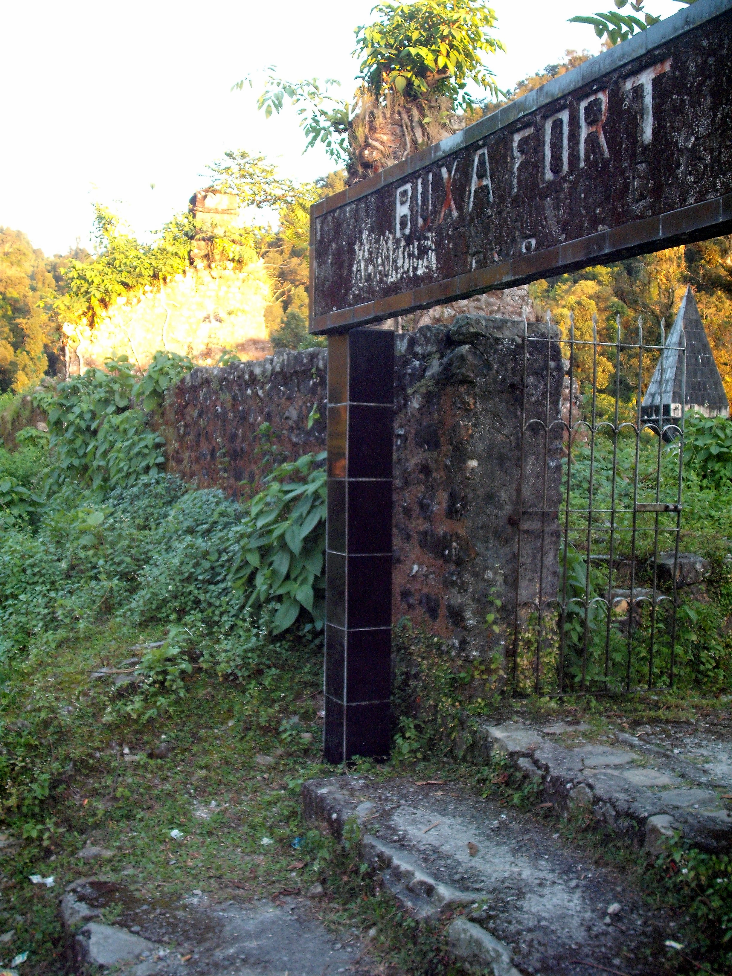 Shot during a documentary making trip to Duars, North Bengal. The gate at the entrace of Buxa fort, atop Buxa hill. The ancient fort was a point of contention between the Bhutan king and the colonial British occupier.